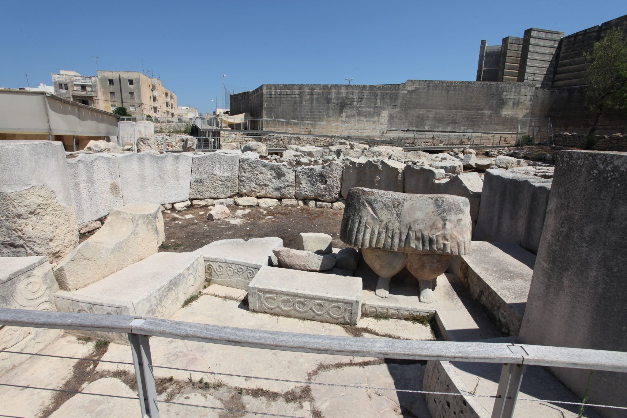 Tarxien temples: decorations of the south temple